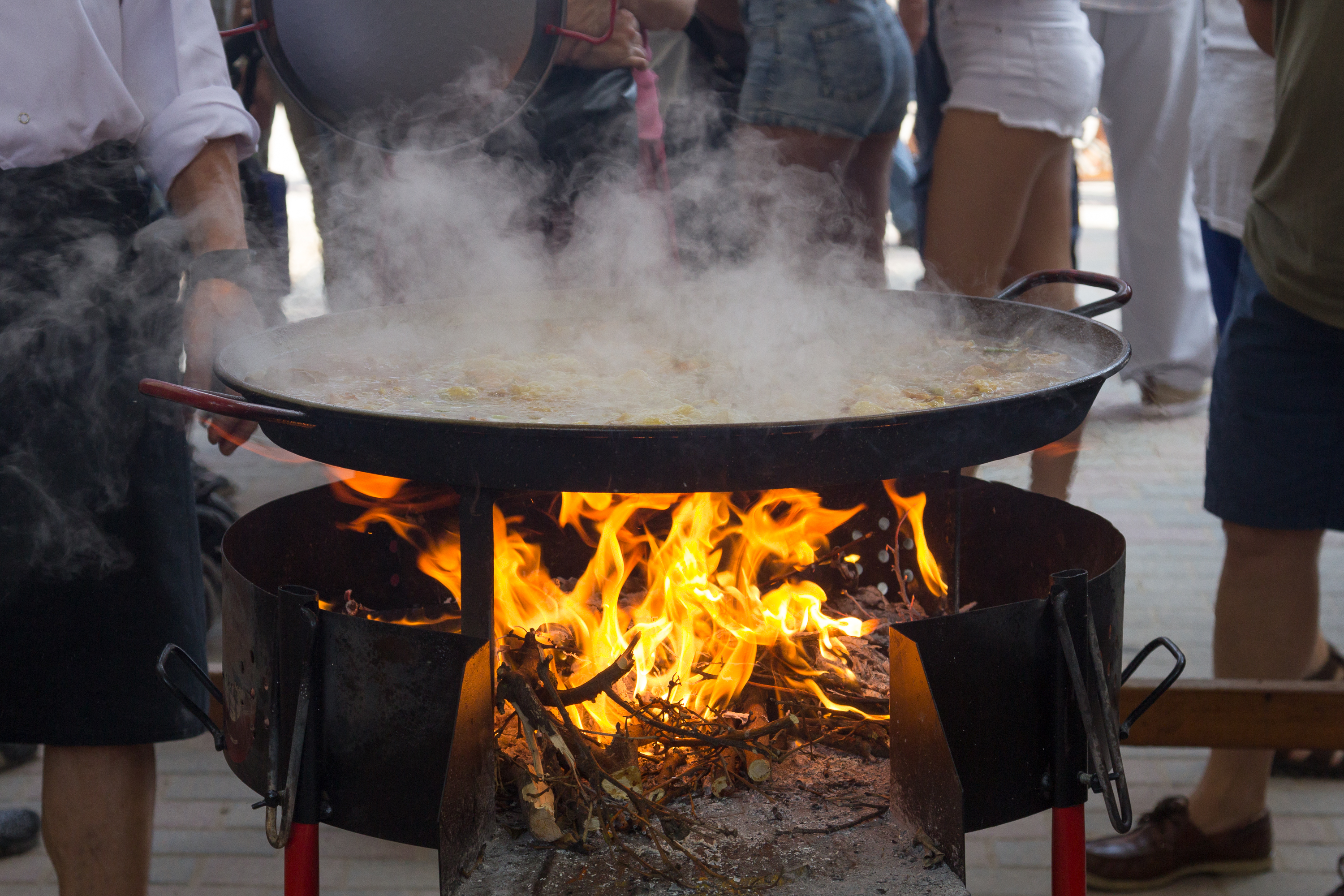 56th International Paella Contest of Sueca, 2016.